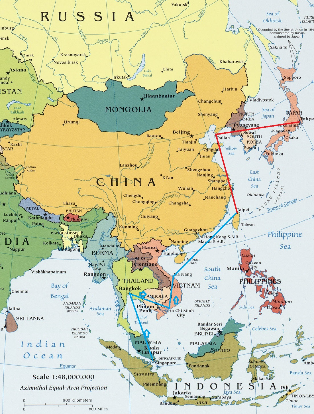 Map of Asia at the UT-Carlos-Castenada Libaray, cropped and annotated by Fowler&fowler (talk) 05:41, 14 November 2013 (UTC) to show the last journeys of Indian nationalist Subhas Chandra Bose, between 16 August 1945 and 18 August 1945. The paths of completed flights are shown in blue, those not completed in red. Bose's plane crashed in Taihoku (now Taipei, Taiwan). Bose was to have disembarked in Dairen, Manchuria (now Dalian China) on the Manchurian peninsula, and the plane was to have continued on to Tokyo.